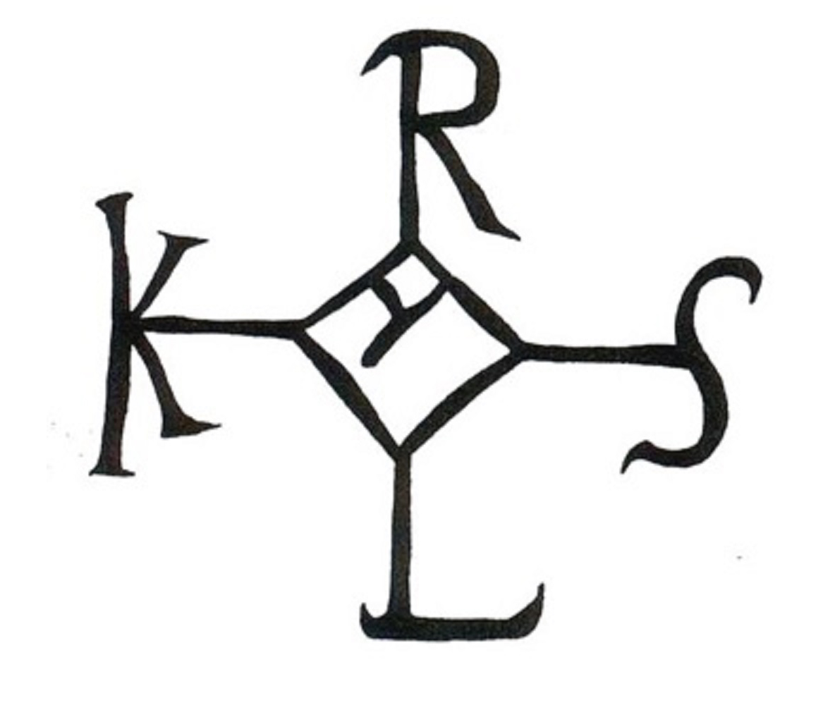 Monogram of Carolus Magnus